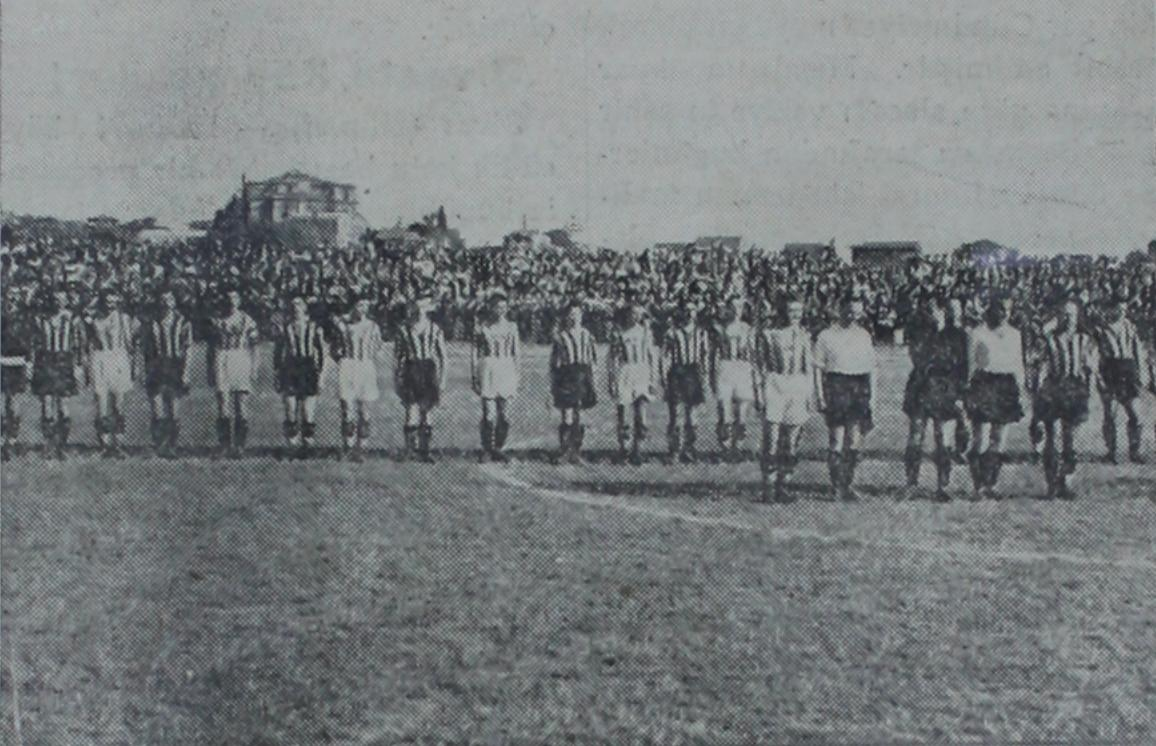 Fenerbahçe and Galatasaray squads before the match between two teams in 21 May 1939.